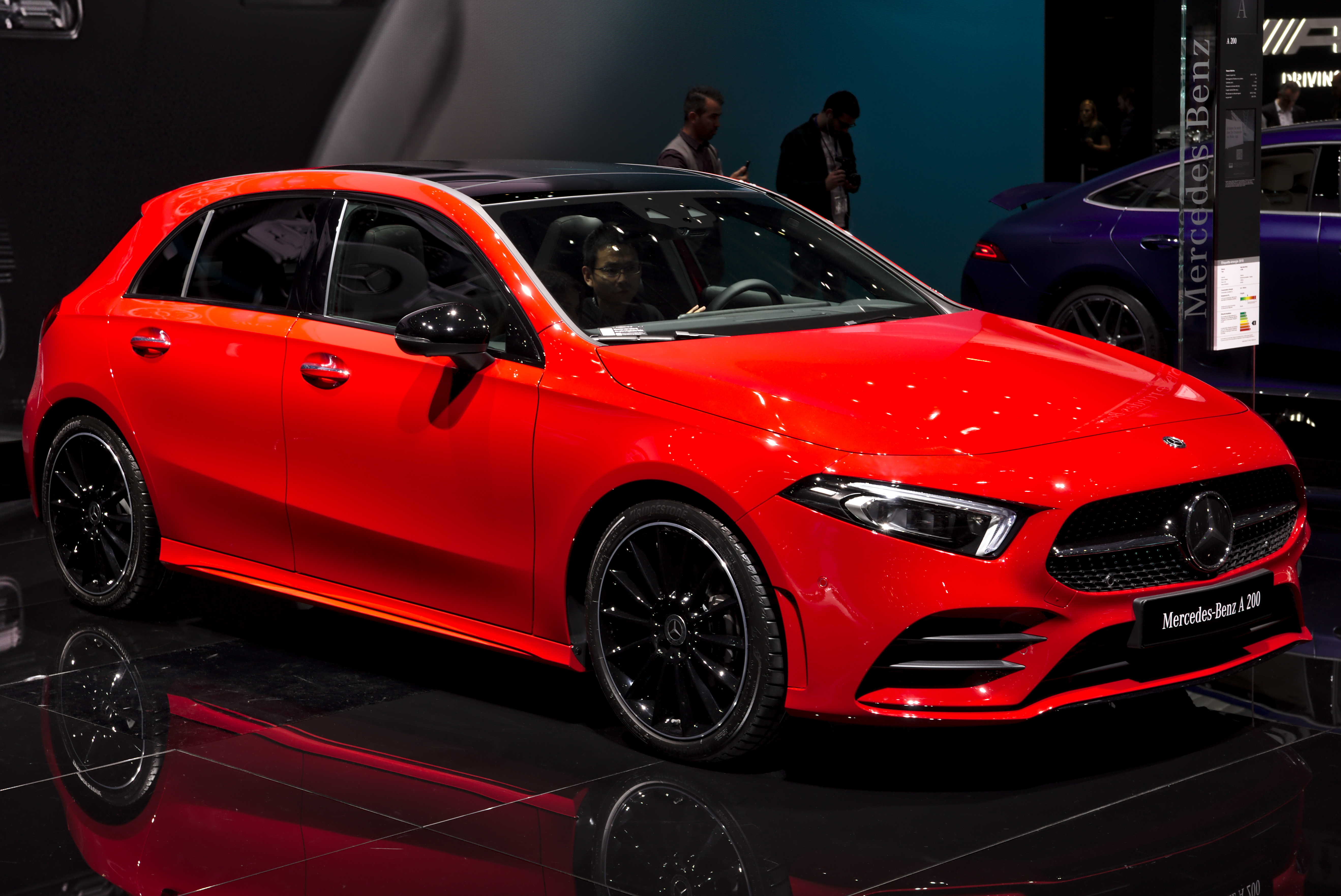 Mercedes-Benz A200 at Geneva Motor Show 2018